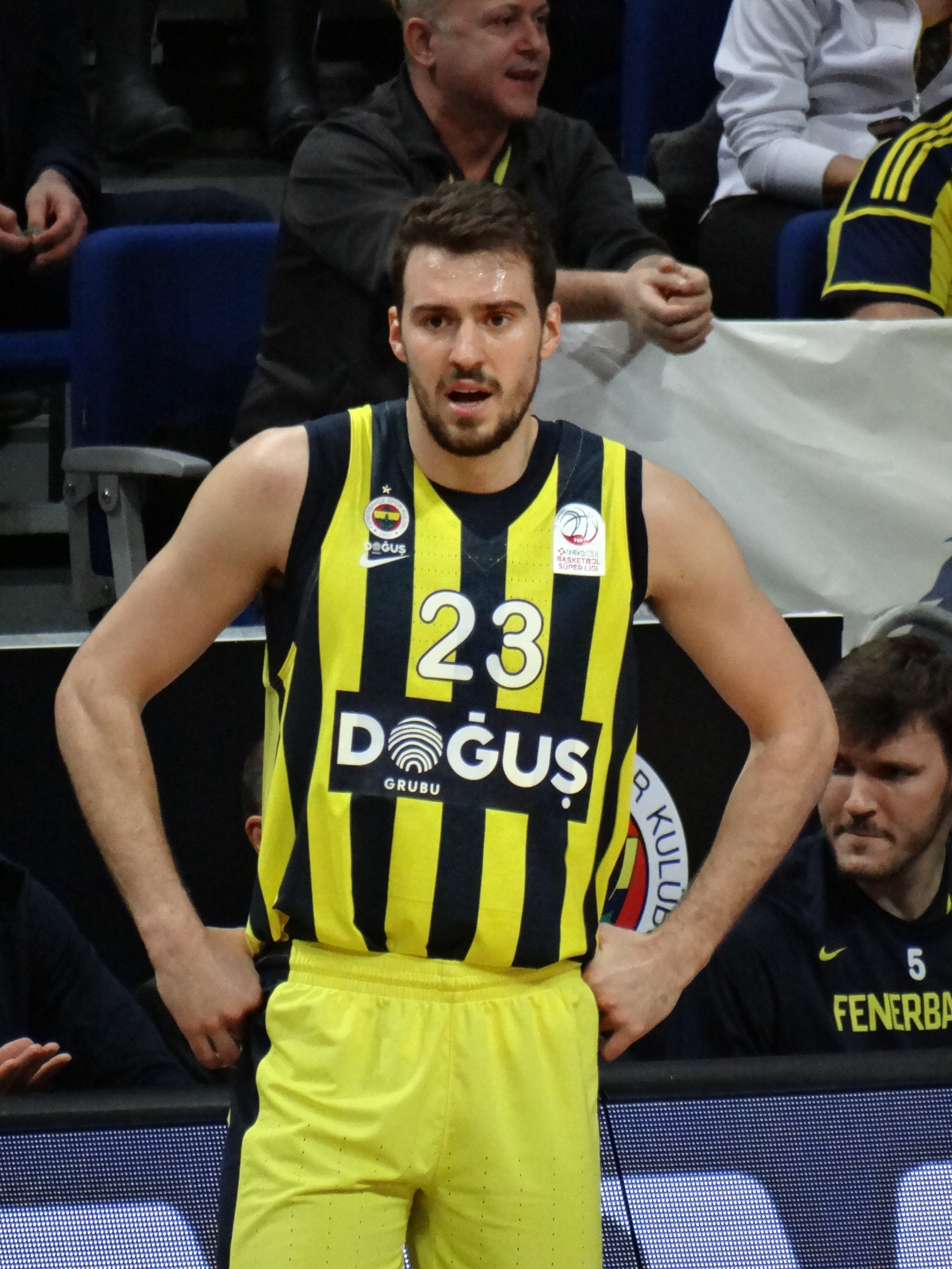 Marko Gudurić 23 Fenerbahçe men's basketball TSL 20180304